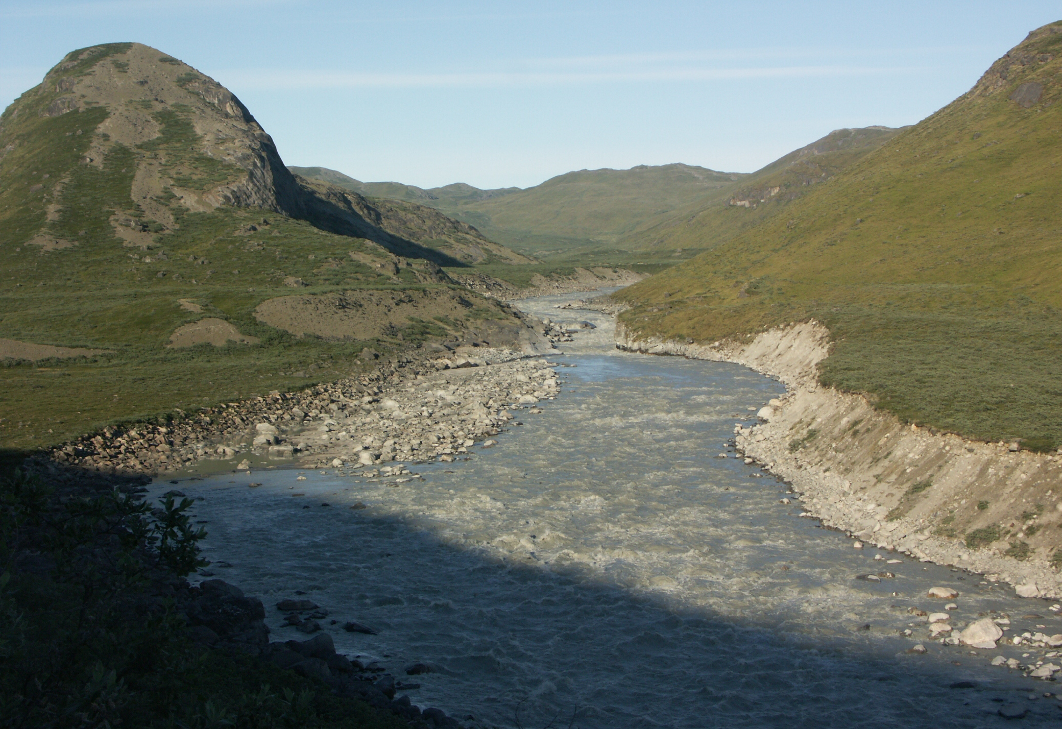 Riffles in the lower run of Akuliarusiarsuup Kuua river, 7km ENE of Kangerlussuaq, Greenland